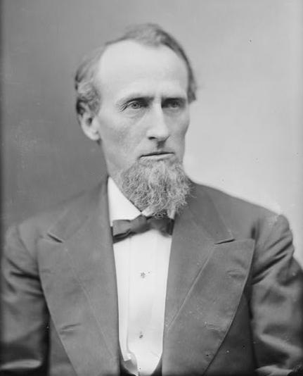 Martin, Hon. Benjamin Franklin of W.Va.